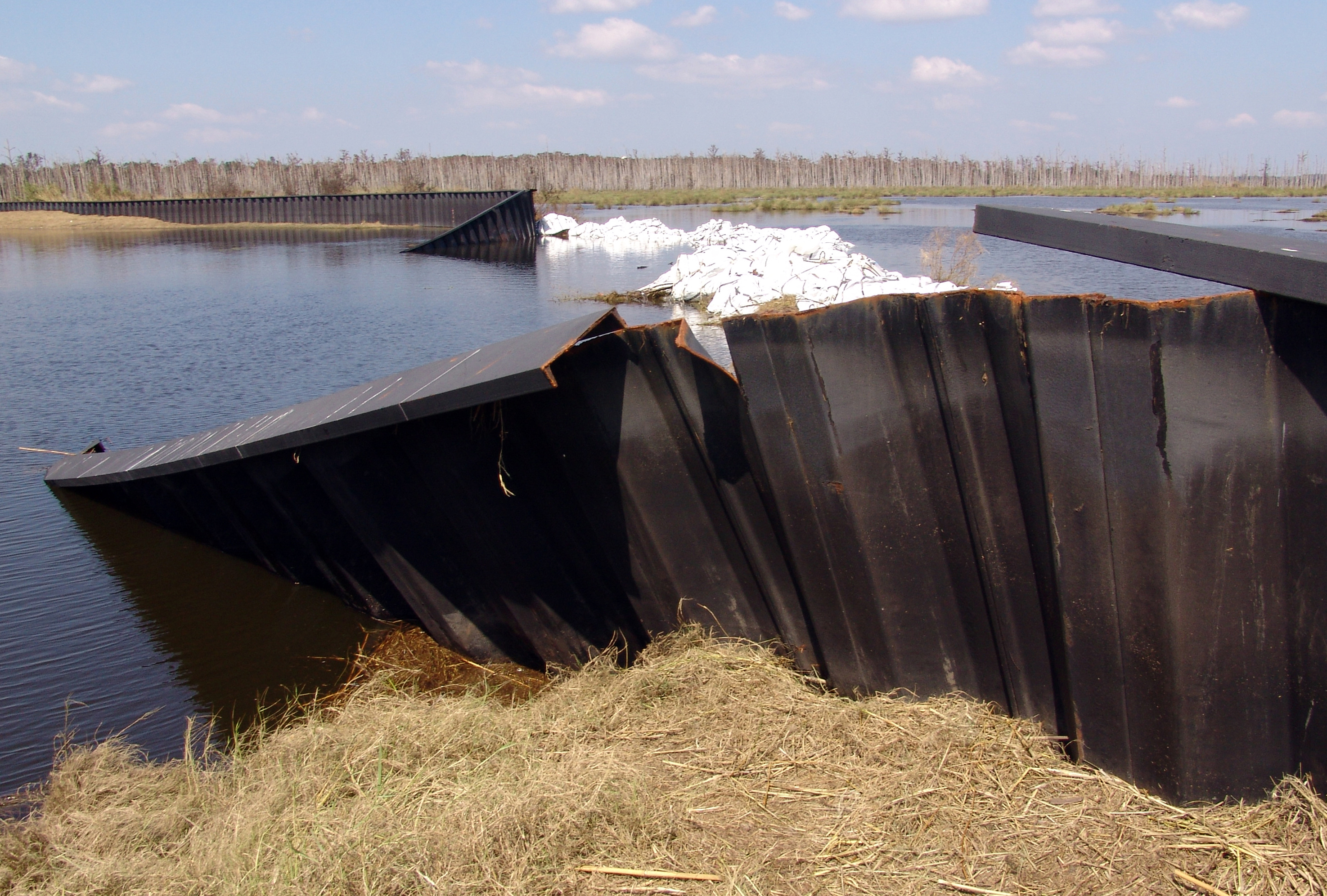 Montegut, LA, September 27, 2005 - The levee at the Wonder Lake Nature Preserve in Terrebonne Parrish broke under the strain of Hurricane Rita four days ago. Helicoptors have been dropping seven-ton sandbags to plug the breech. Photo by Greg Henshall / FEMA